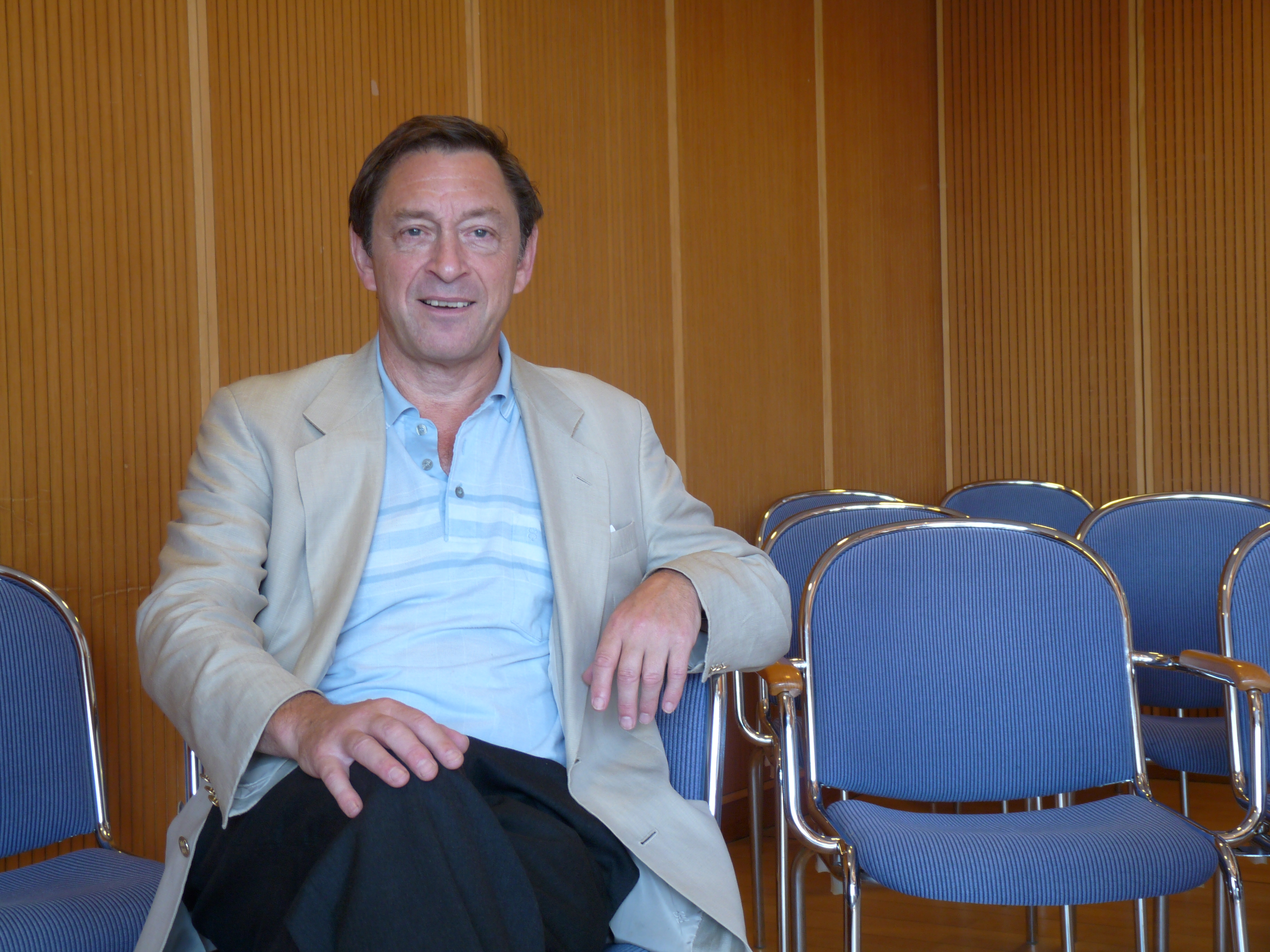 Guy Standing is professor at the University of Bath, co-founder of the Basic Income Earth Network and author of "The Precariat: the new dangerous class" (2011). Picture taken during the 14th BIEN Congress (2012) at the Wolf-Ferrari-Haus, in Ottobrun, Munich, Germany